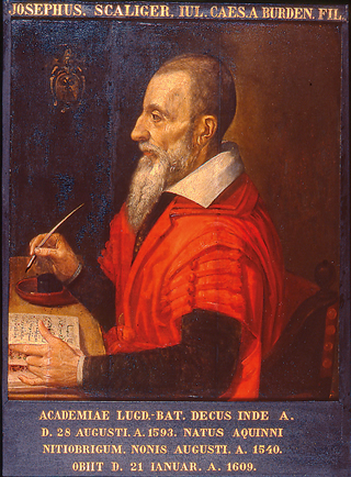 Portrait of Josephus Justus Scaliger, by Jan Cornelisz. van 't Woudt or Woudanus (attributed). 1608. Icones Leidenses 31.